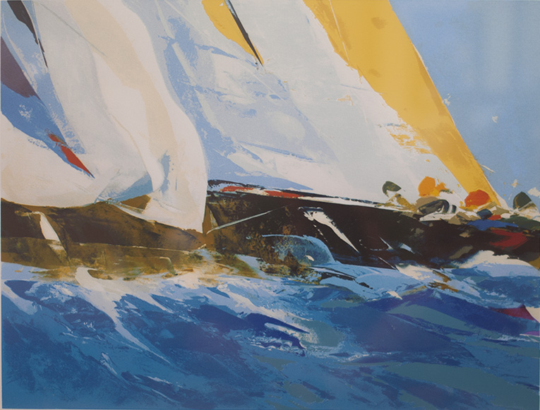 Donald Hamilton Fraser Silkscreen entitled Loose Spinnaker from 1996.